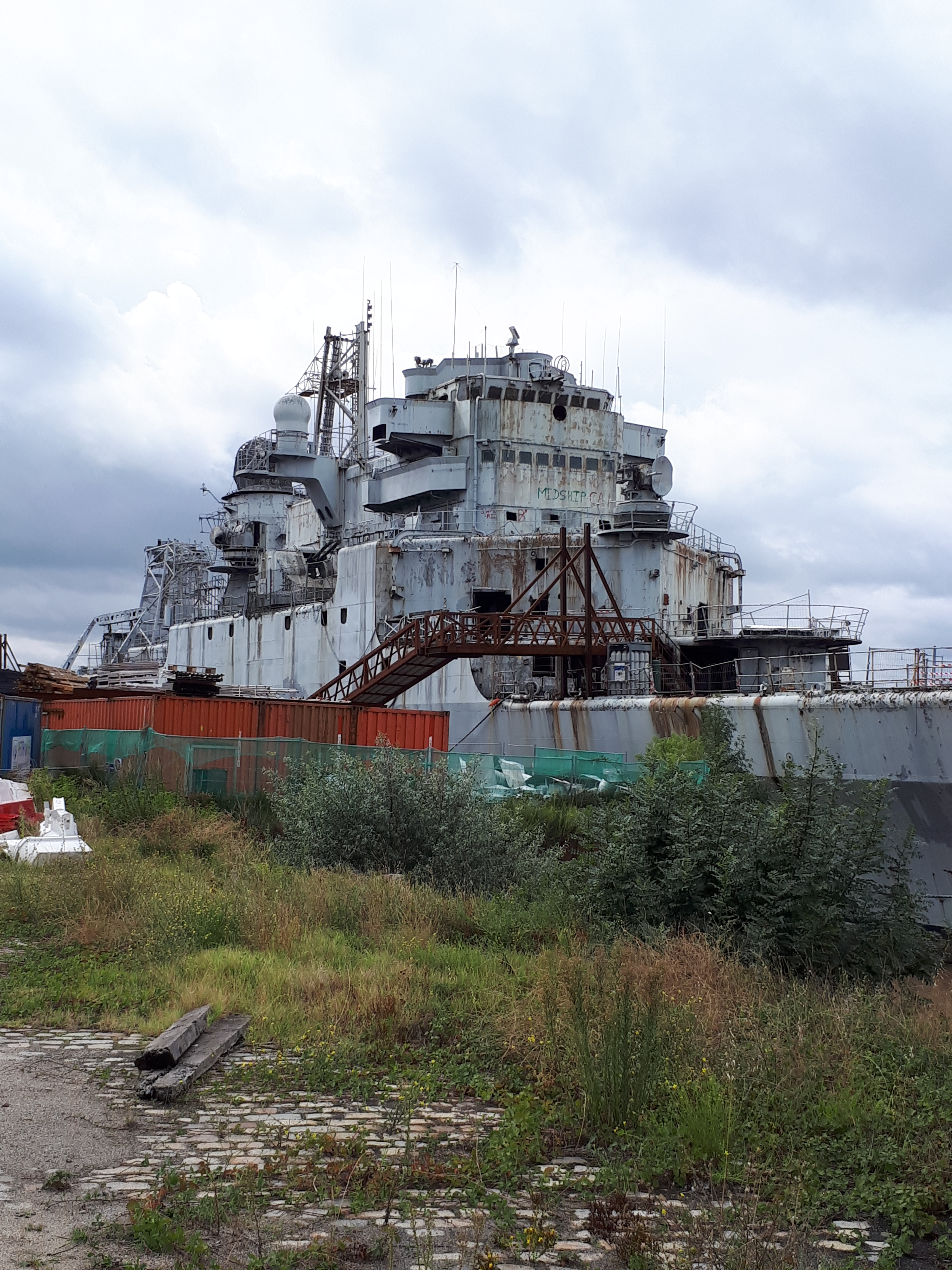 French cruiser Colbert during decontamination prior to scrapping